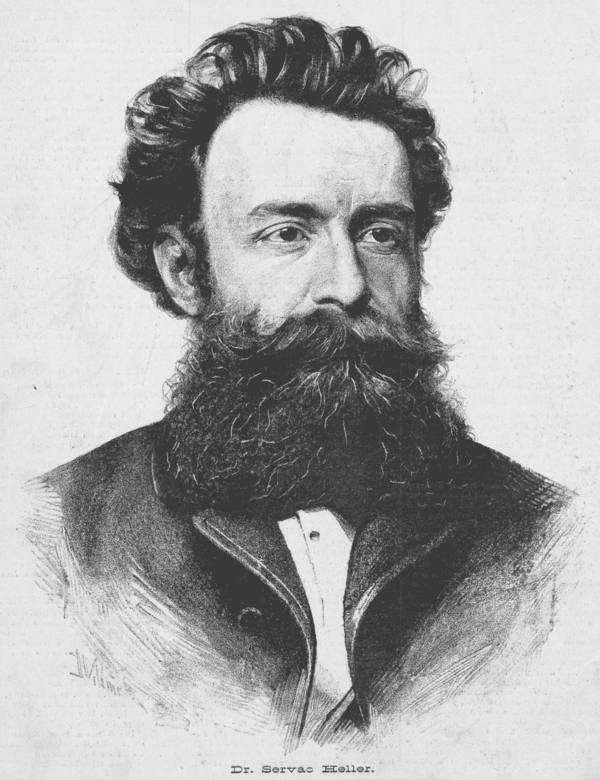 Portrait of Servác Heller (1845 - 1922), Czech writer and journalist, author of historical studies.